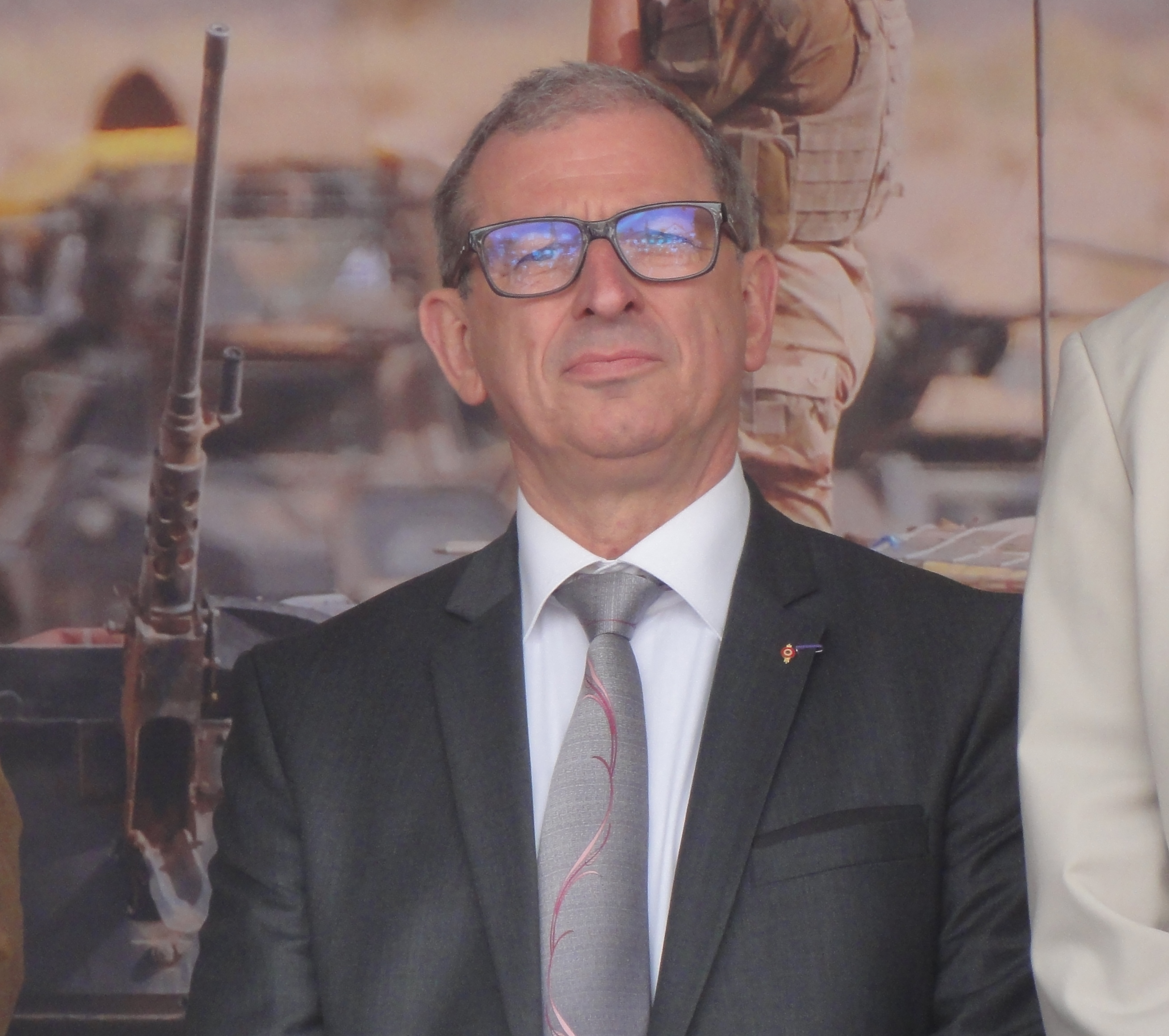 Depicted place: Petite-Forêt Depicted person: Marc Bury – French politician